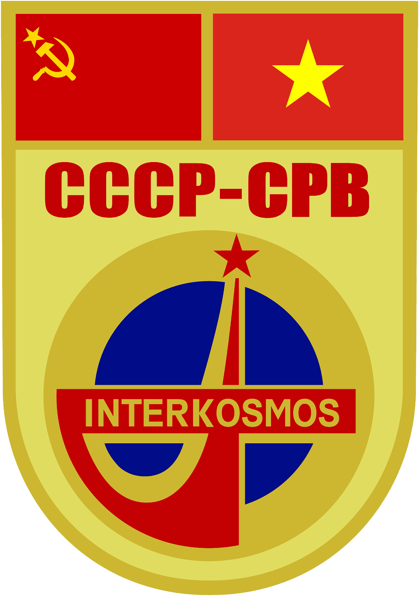 Soyuz-37 patch